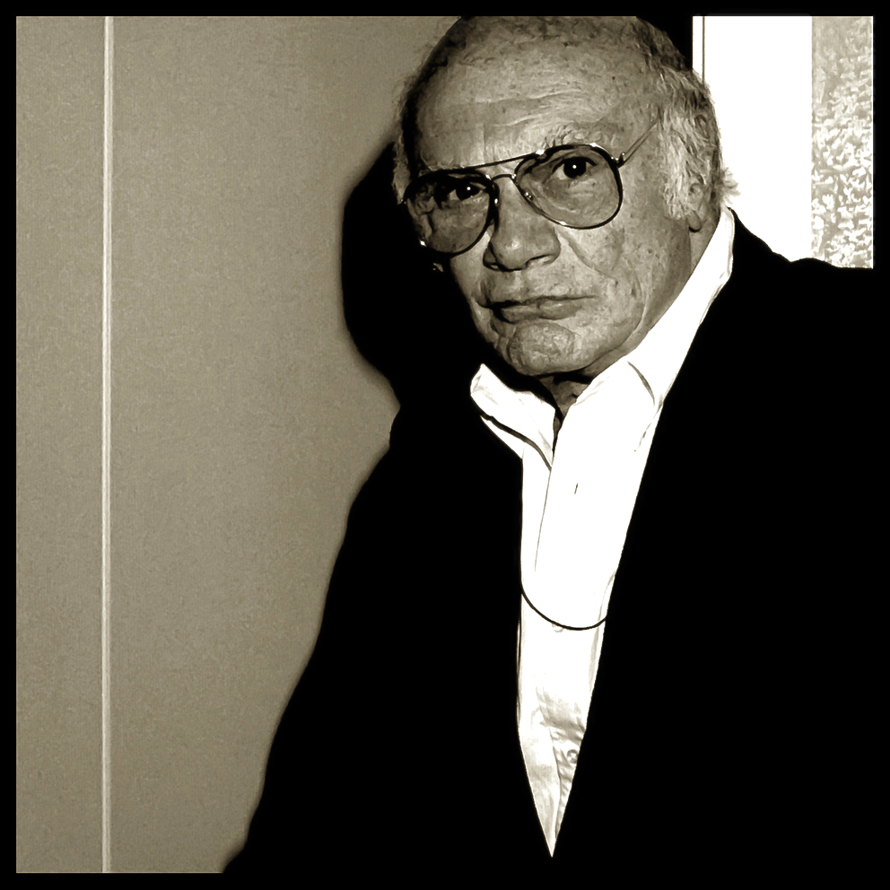 Portrait of Francesco Rosi - Augusto De Luca photographer